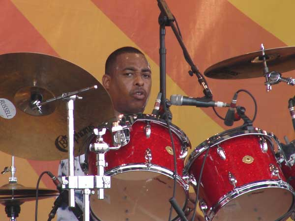 Russell Batiste playing at the New Orleans Jazz & Heritage Festival as a member of the Porter Batiste Stoltz trio. Photo by Masahiro Sumori.